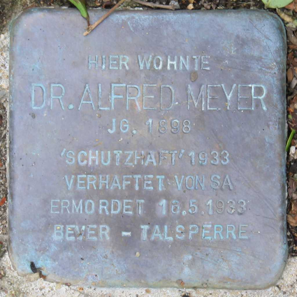 Stolperstein" (stumbling block), Alfred Meyer, Wuppertal, Helmutstraße 32, Germany